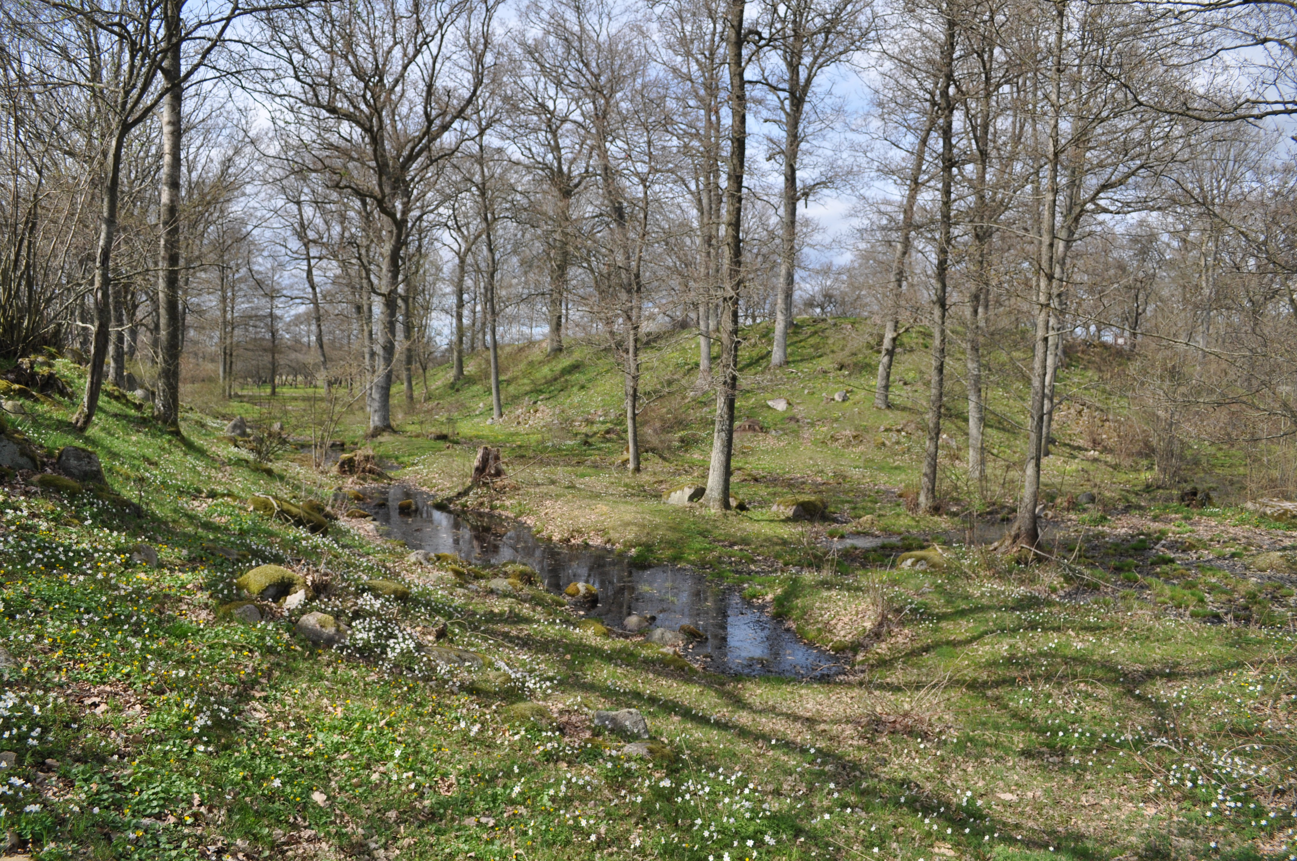 Brömsehus. View from moat against the places who the castle was.